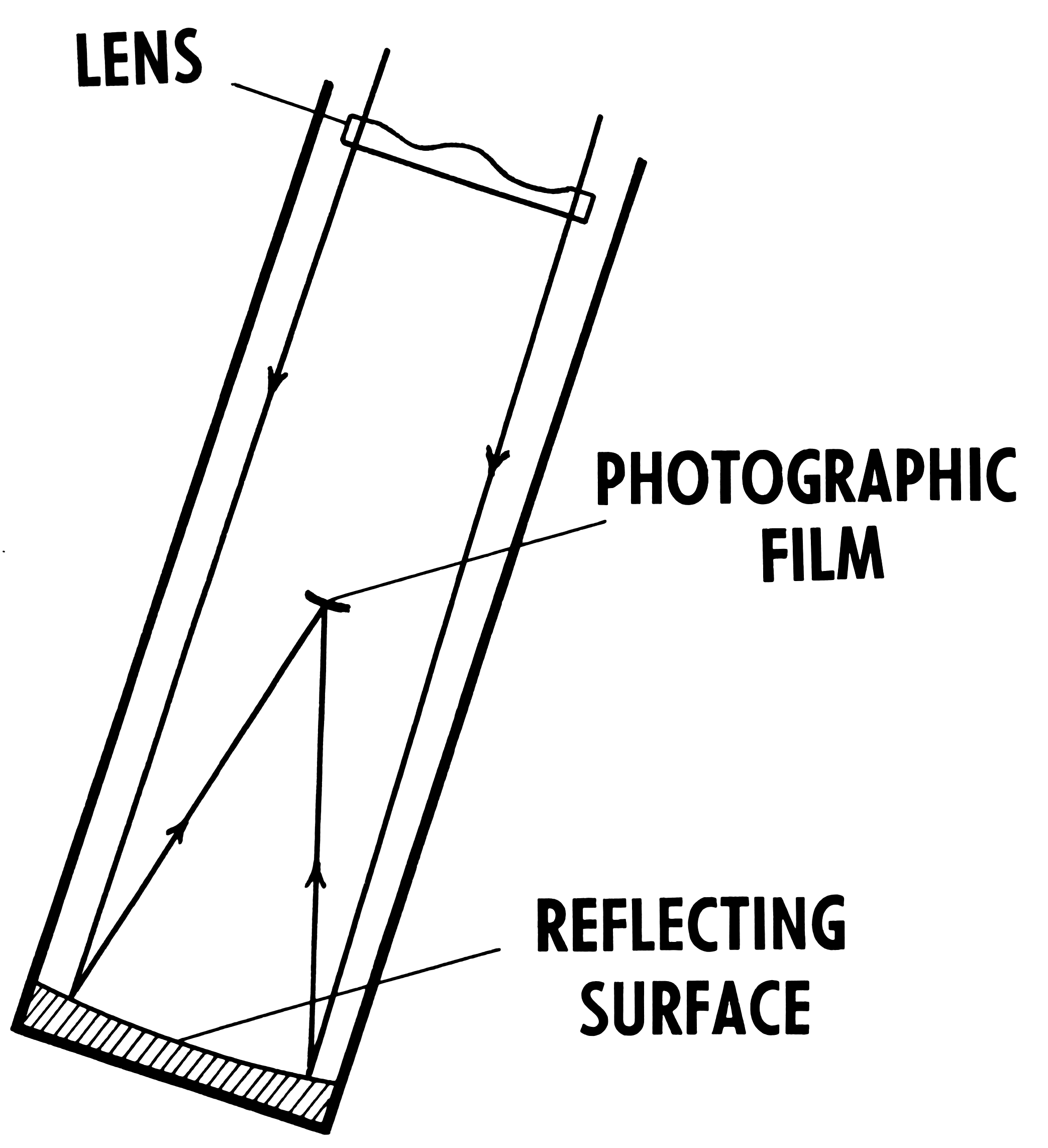 Line art of Schmidt telescope.